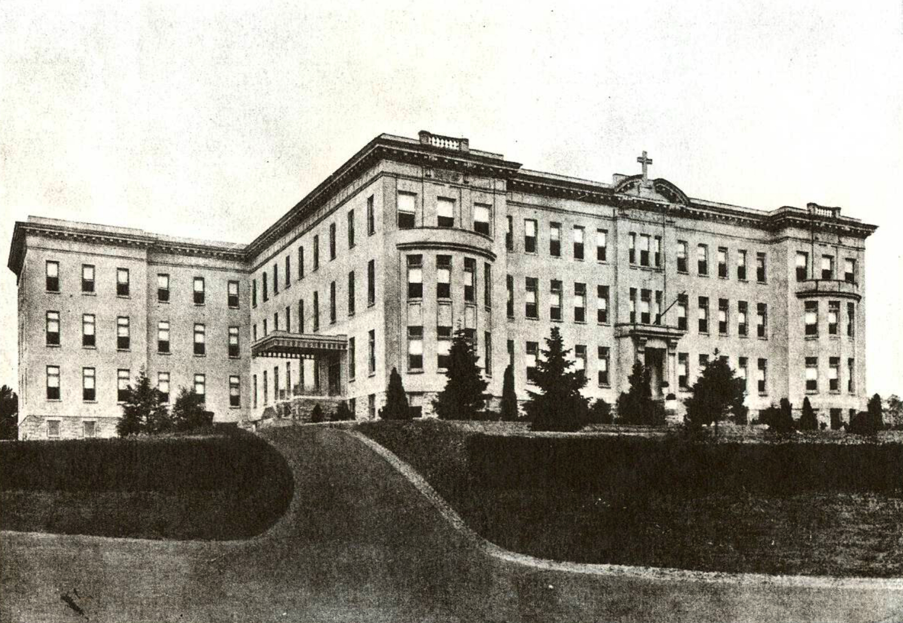 Photograph of Immaculata Seminary from Nebraska Avenue